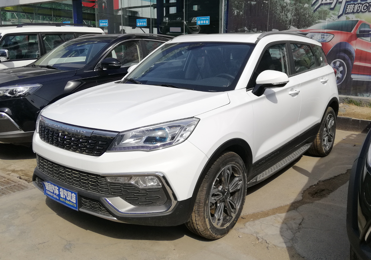 Leopaard CS9 EV photographed in Zhengzhou, Henan province, China.